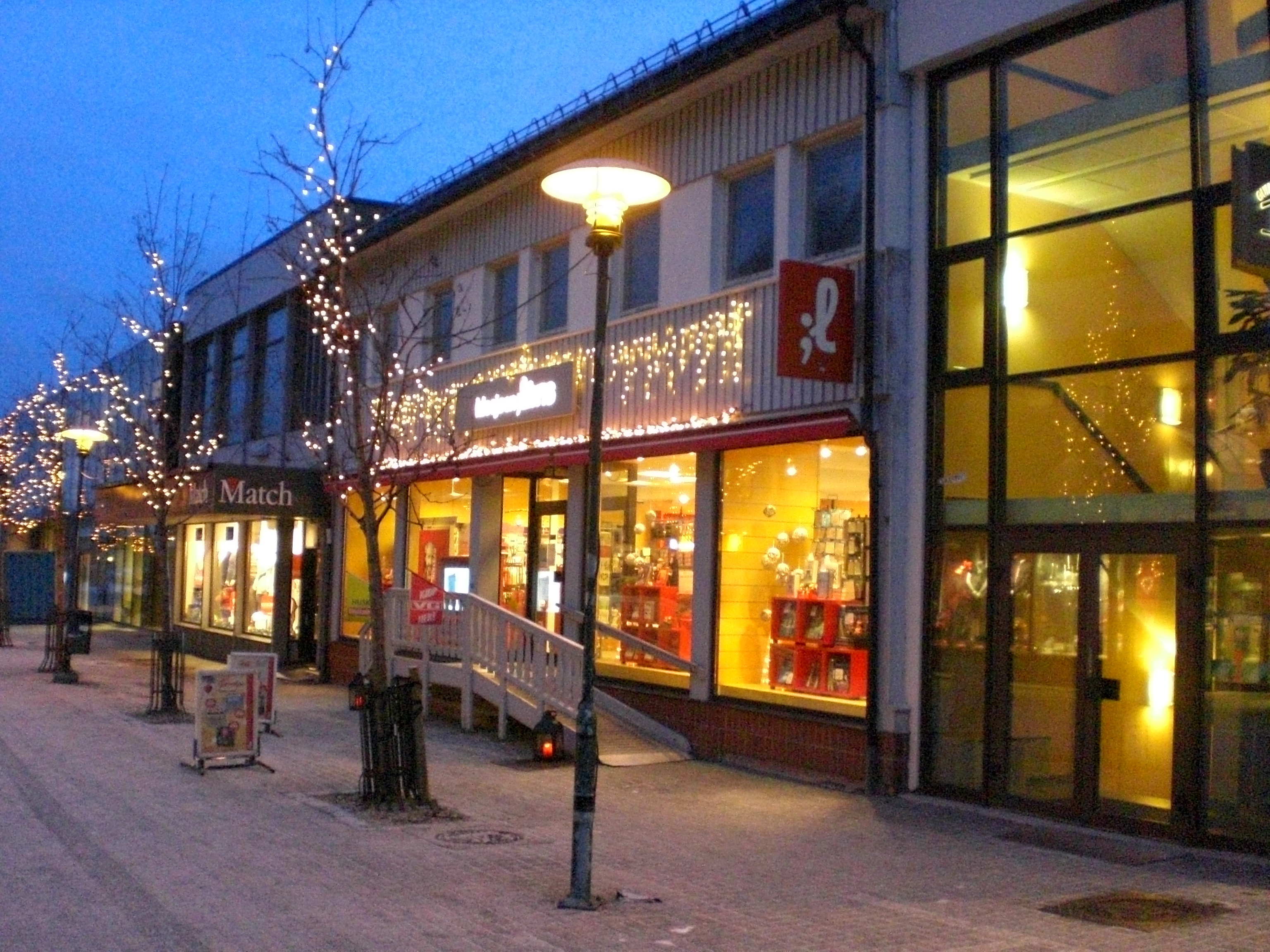 Mosjøen, Norway. Part of Strandgata alias Gågata, the town's main street.